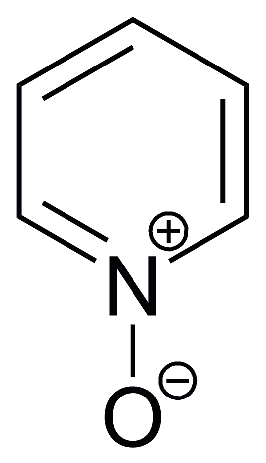 pyridine N-oxide